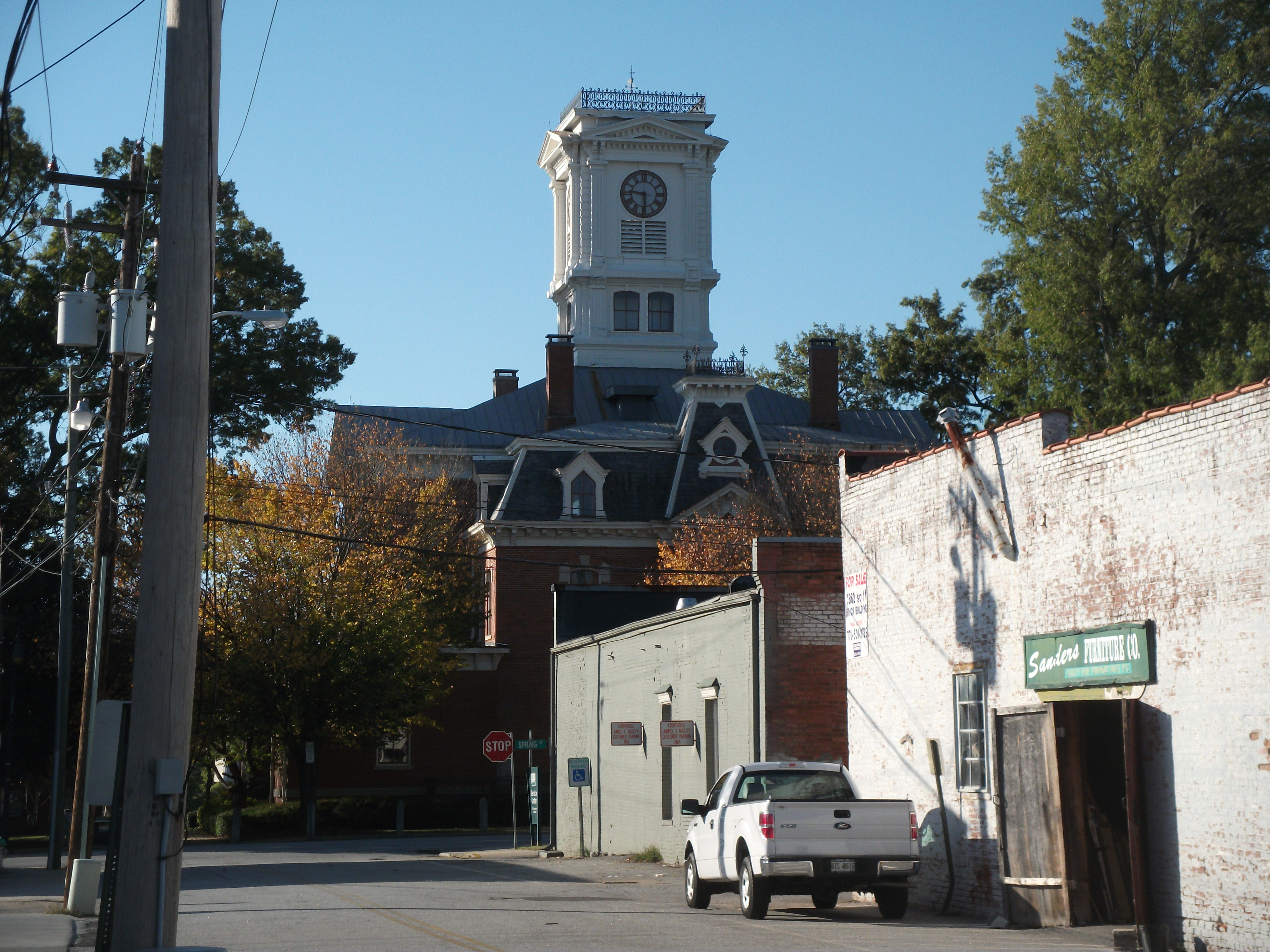 Walton County, Georgia courthouse in city of Monroe